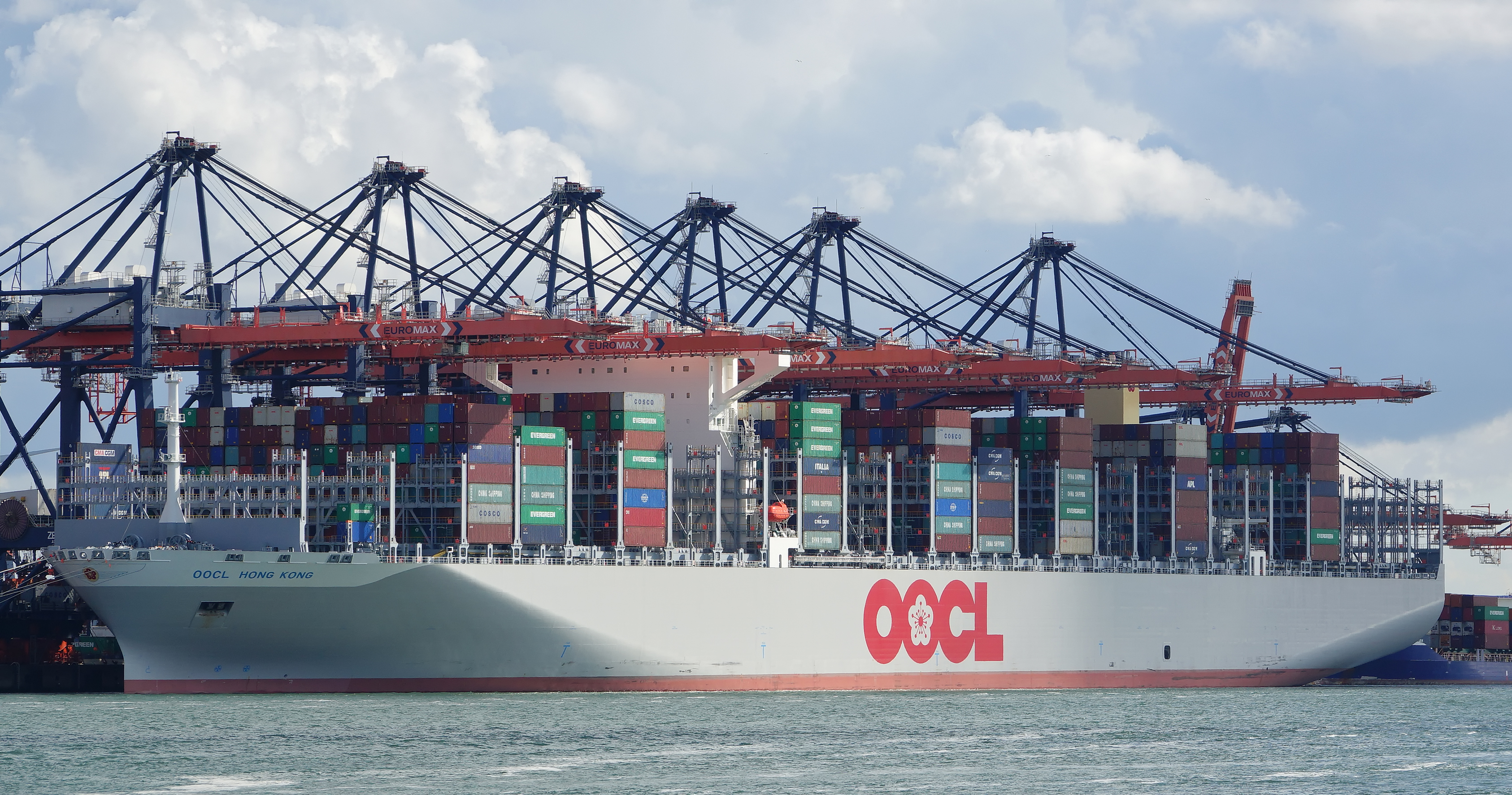 Euromax terminal yangtzehaven 15-9-2017